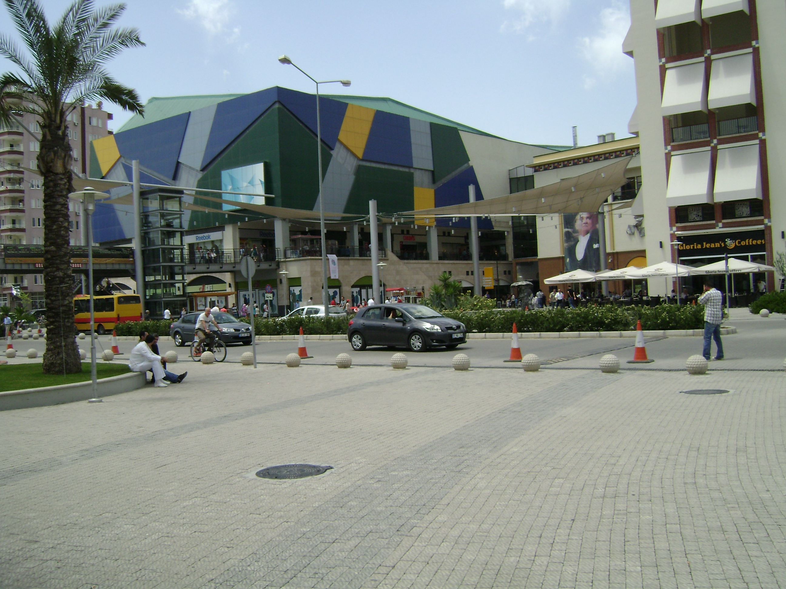 Mersin Forum shopping center